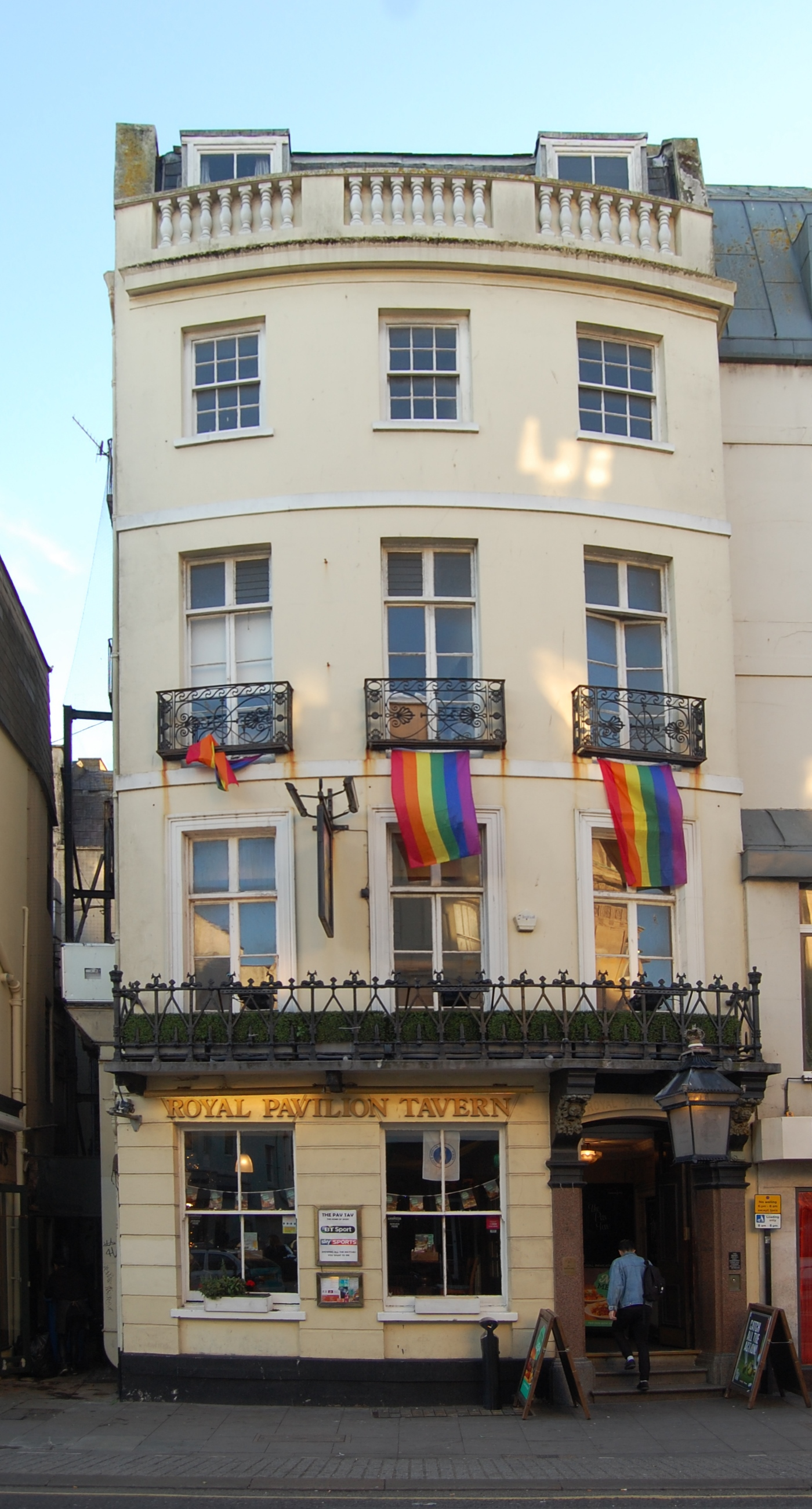 Royal Pavilion Tavern, 7–8 Castle Square, Brighton, City of Brighton and Hove, England.